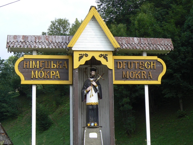 Sign at the entrance of the village Deutsch-Mokra/Німецька Мокра, official name Комсомольськ (Komsomolsk), in Ukraine.